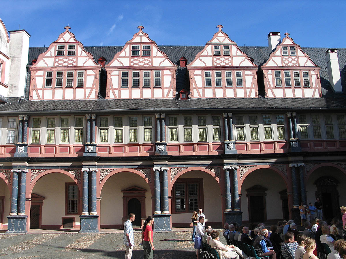 Weilburg, Lahn, Deutschland